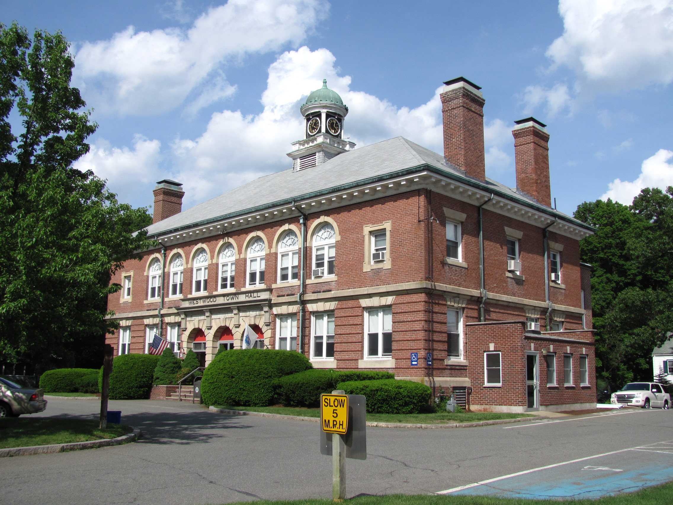 Westwood Town Hall, Westwood Massachusetts